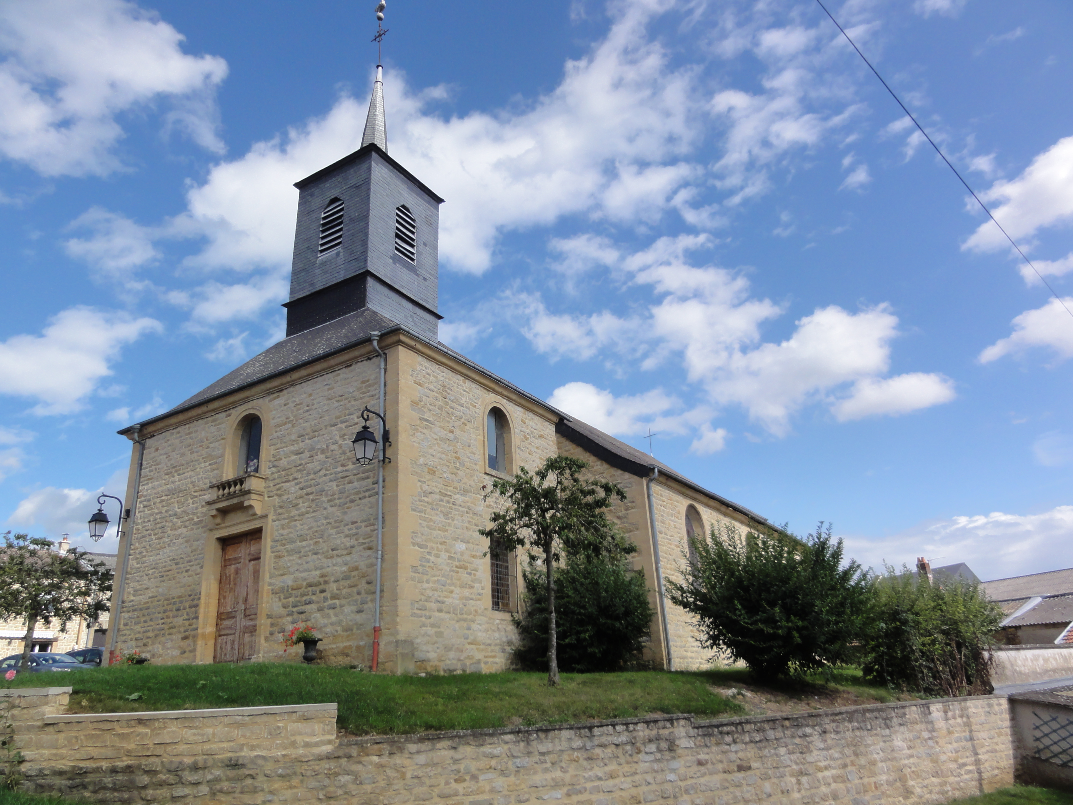 Damouzy (Ardennes) église